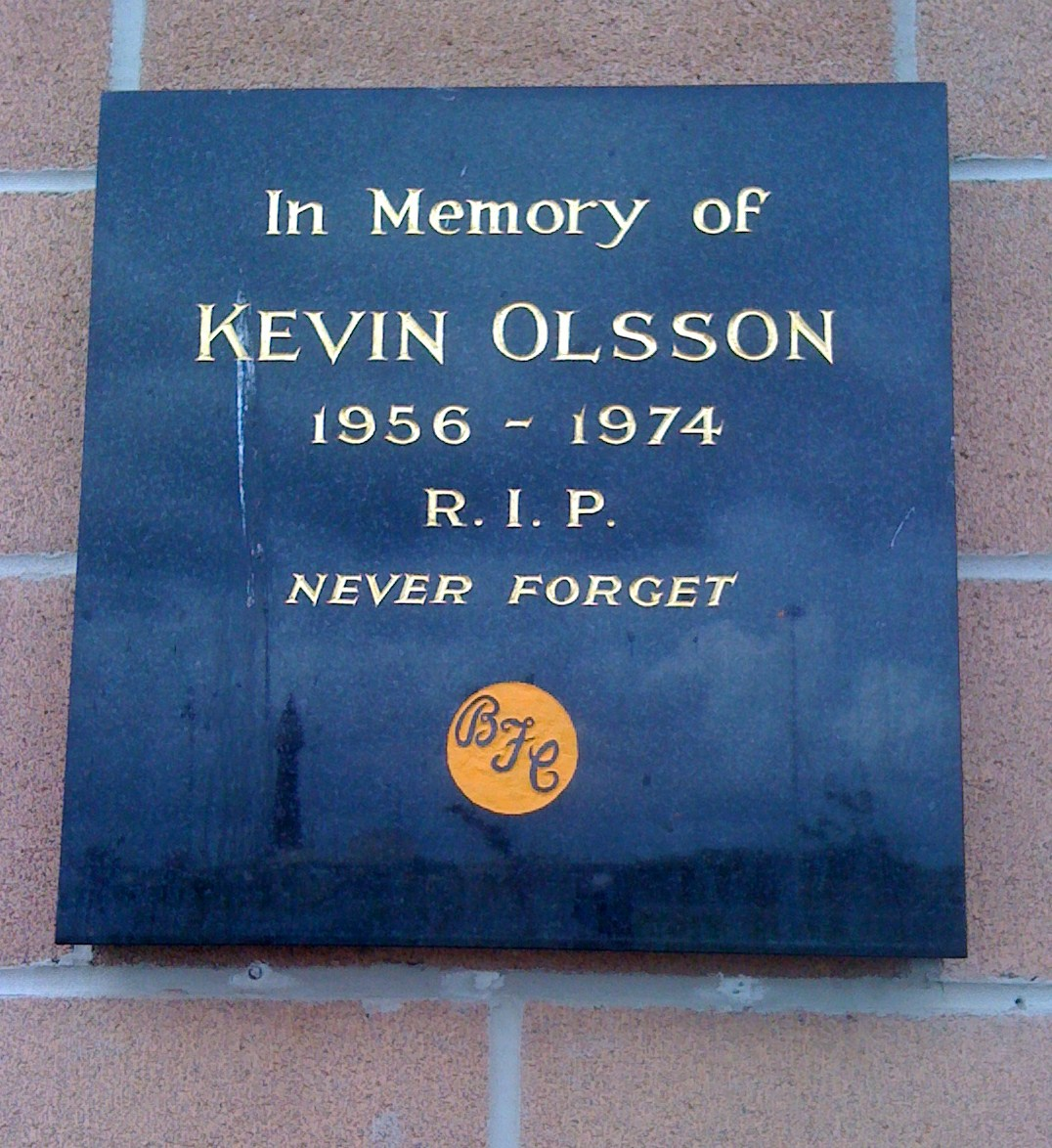 Plaque on the exterior wall of Blackpool F.C.'s Bloomfield Road ground